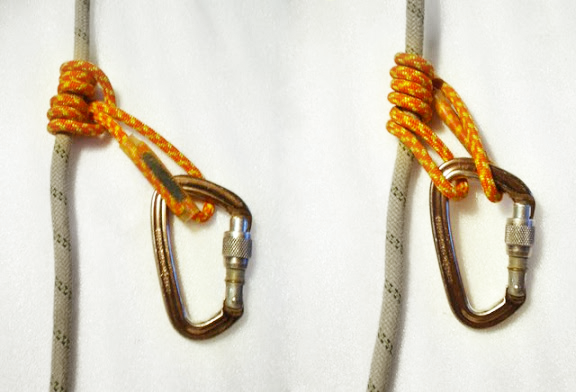 Prusik and Autoblock Loops